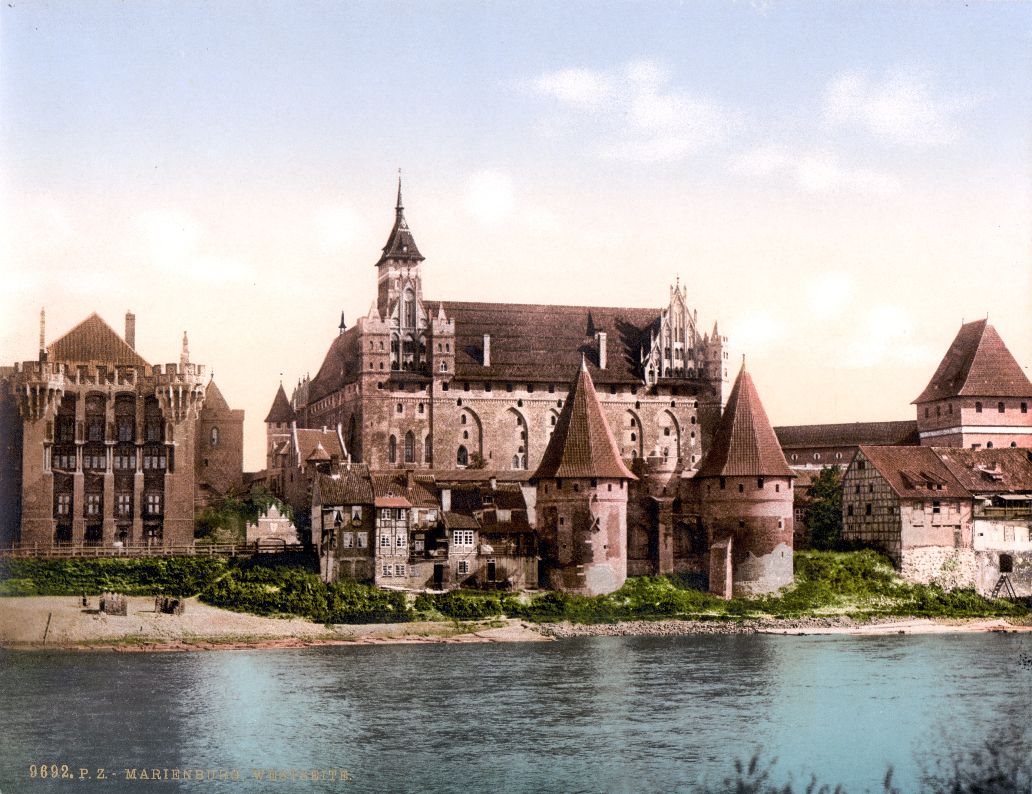 Castle Marienburg - west side